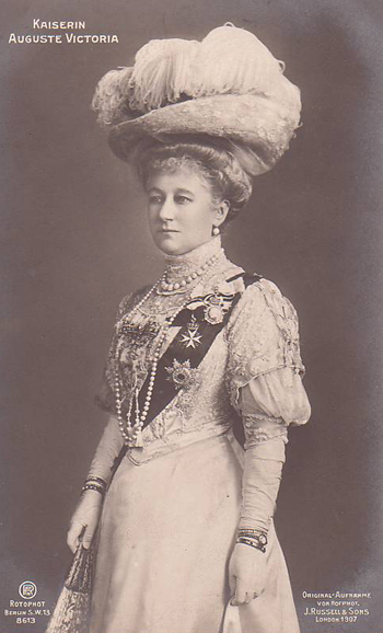 Augusta Victoria of Schleswig-Holstein, German Empress, 1907 postcard